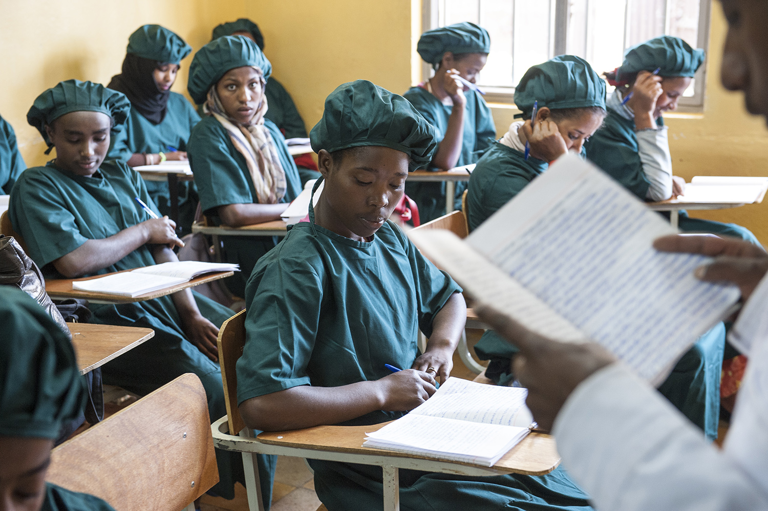 In Ethiopia´s capital Addis Abeba poor women get a free education. In a half year course they are trained in home economics, child care and cooking. The training is organised by the foundation "Menschen für Menschen Switzerland" and local NGO AGOHELMA.